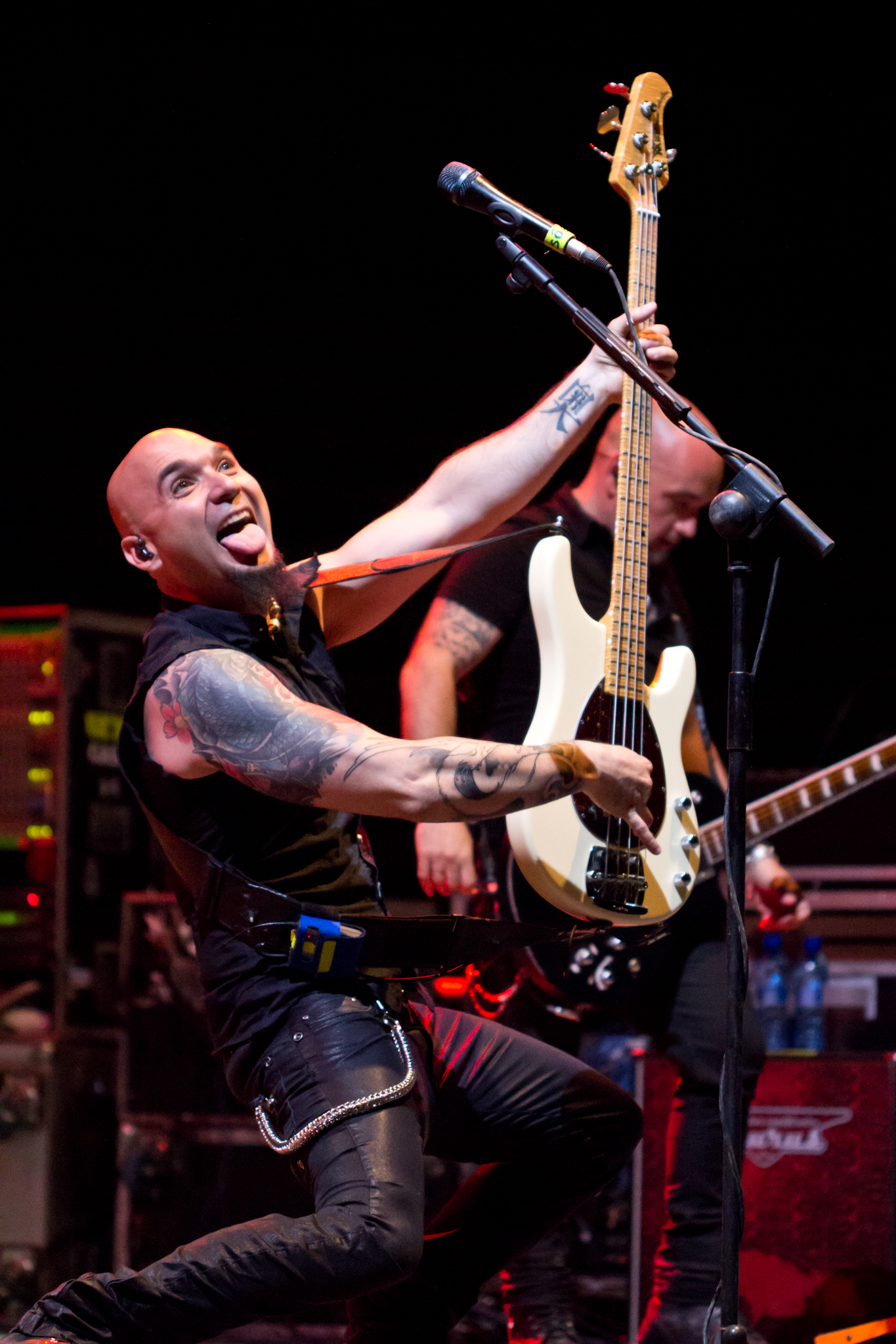 Spanish metal band Sôber at Asaco Metal Fest 2013, Parla, Spain.